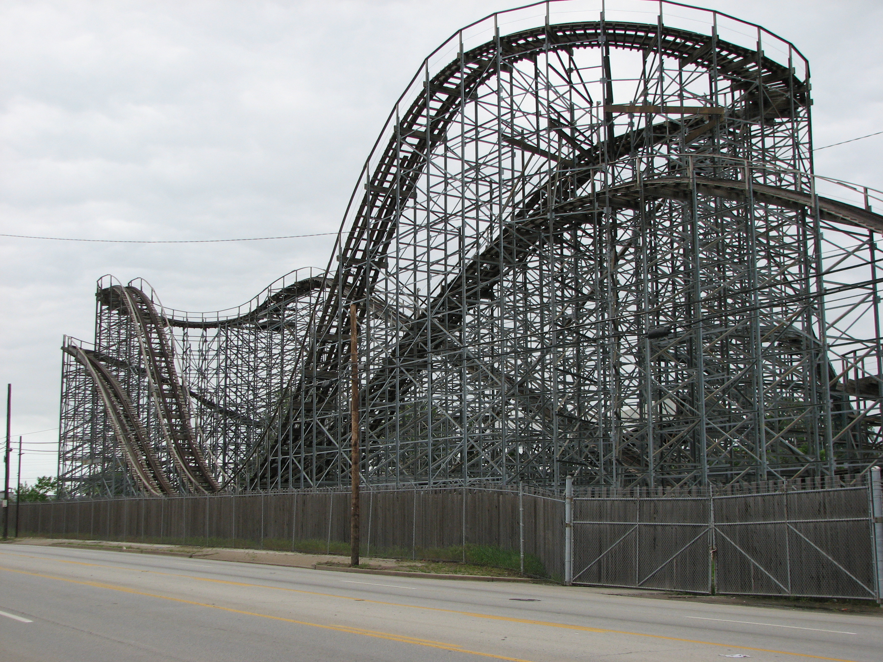 Twisted Twins dueling first drops